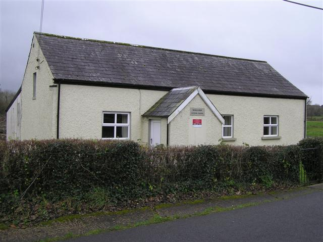 Swanlinbar National School Unfortunately there wasn't a date on the plaque